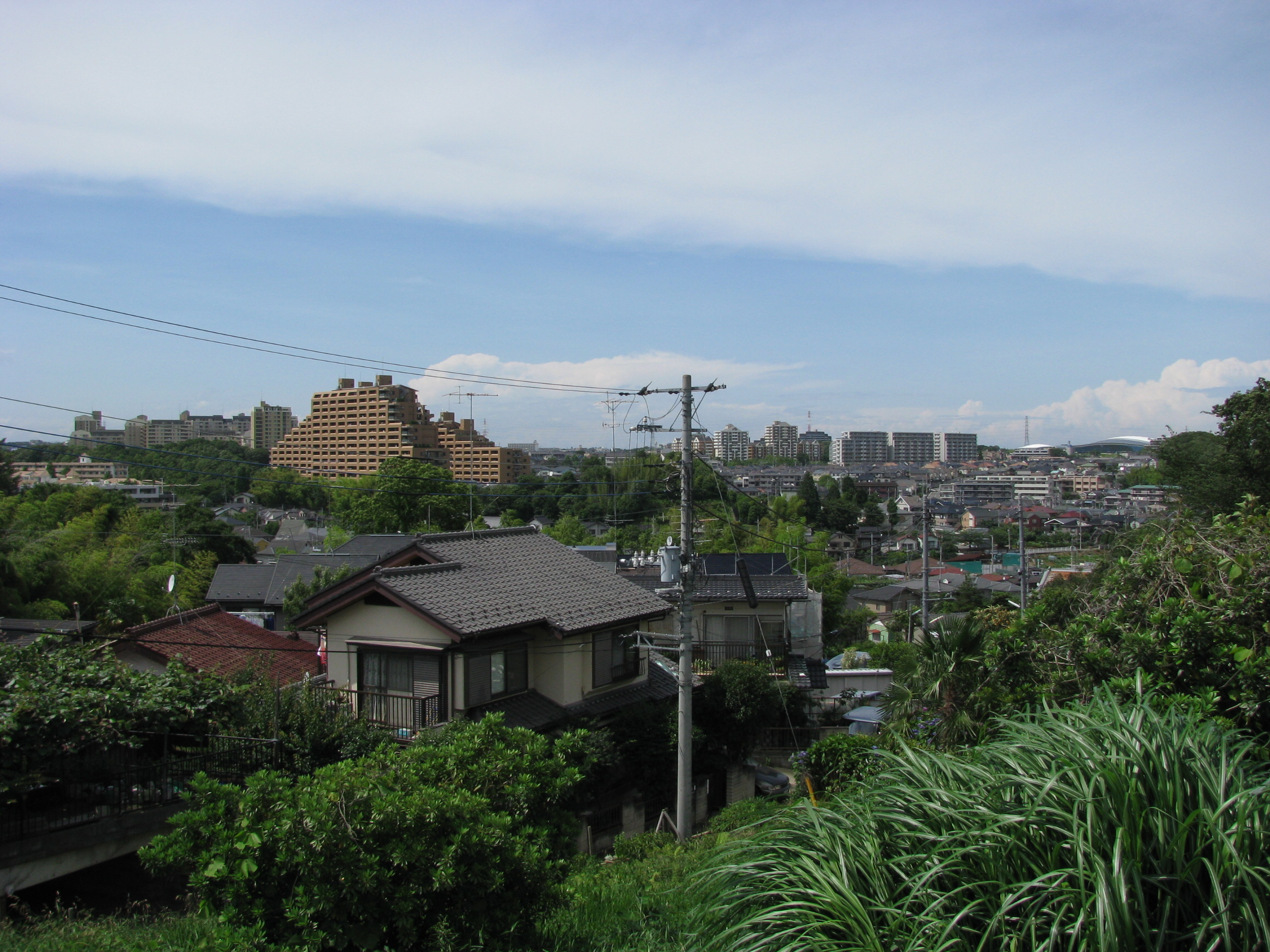 This lokated is Ōtana-chō in Tsuzuki-ku, Yokohama, Kanagawa, Japan.